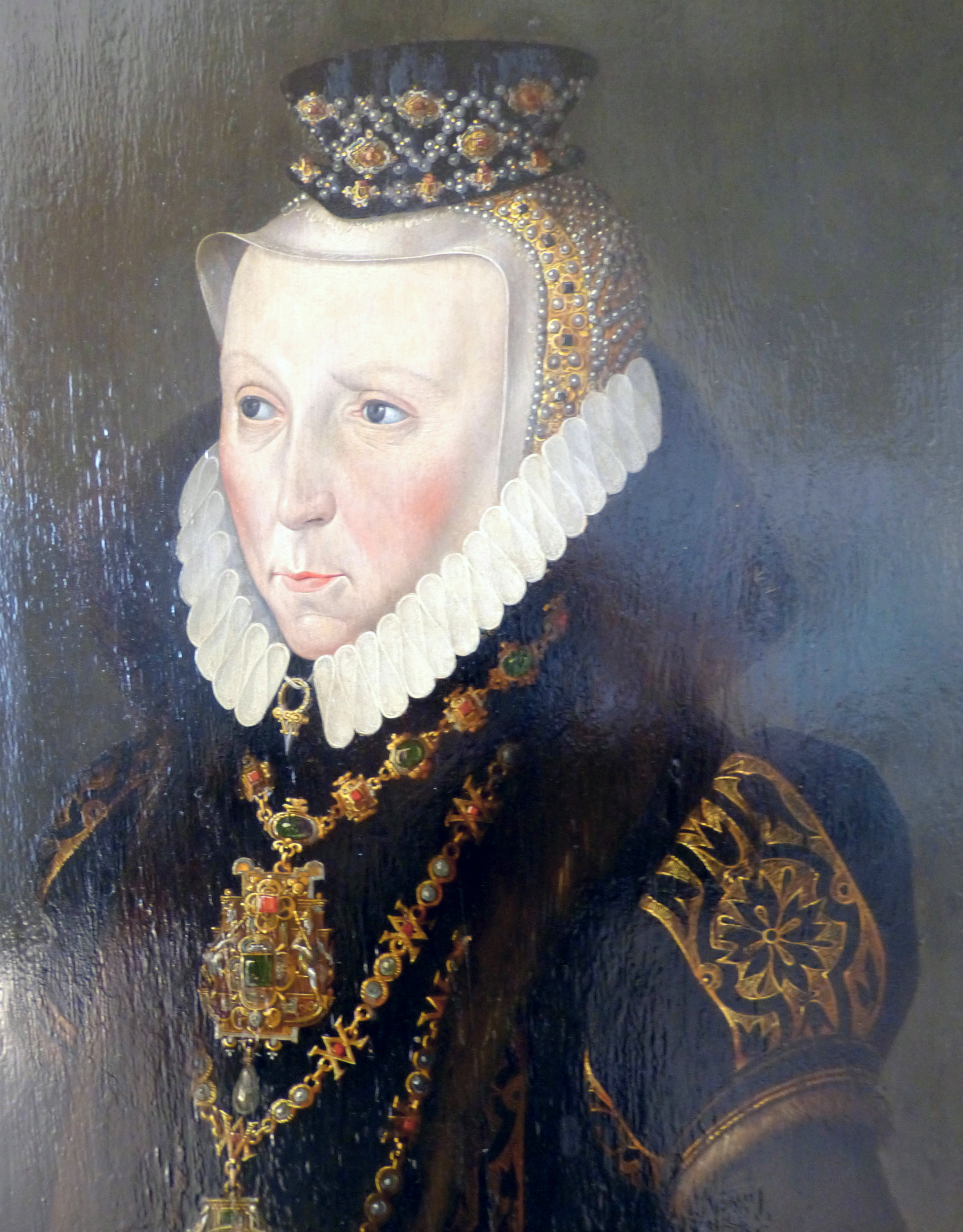 Güstrow ( Mecklenburg-Vorpommern ). Castle museum: Portrait ( 1578 ) of Elizabeth of Denmark, Duchess of Mecklenburg.